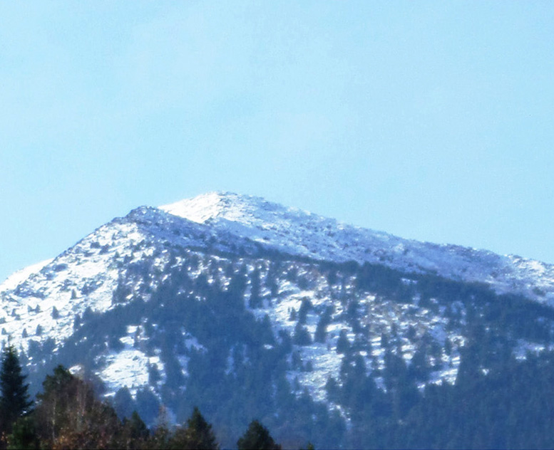 Baba Mountain with its peak Pelister (2,601 metres) in the backdrop. View from the house of Tale Ognenovski, clarinetist and composer where he was born in 1922 in the village Brusnik, Bitola, Republic of Macedonia. Peak Pelister was inspiration for Tale Ognenovski for composing his instrumental composition “Pelistersko oro” in 1963.